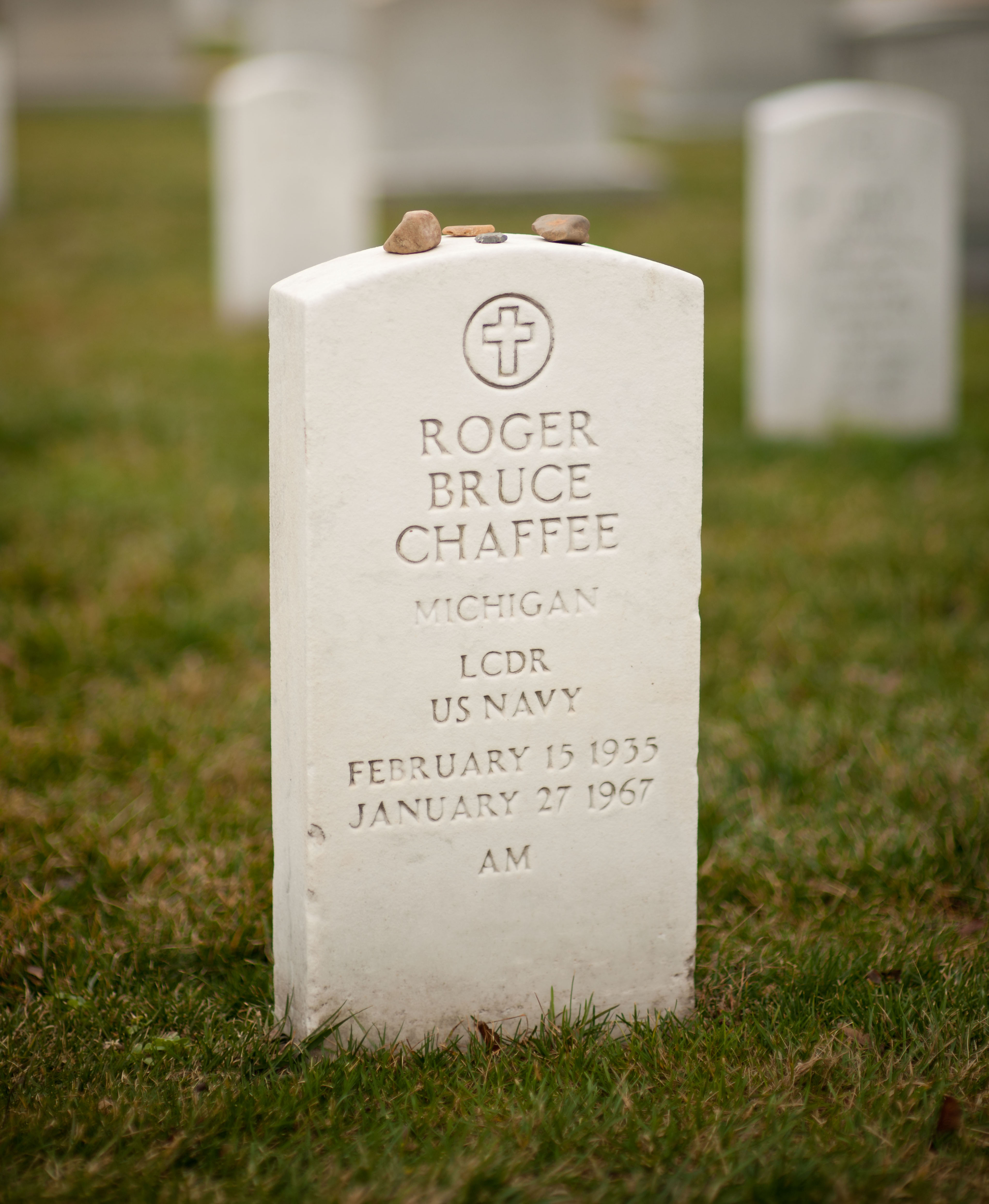 The headstone of Roger Chaffee is seen after a wreath laying ceremony that was part of NASA's Day of Remembrance, Thursday, Jan. 26, 2012, at Arlington National Cemetery. Wreathes were laid in memory of those men and women who lost their lives in the quest for space exploration. Chaffee was killed along with fellow astronauts Ed White and Virgil "Gus" Grissom during a pre-launch test for the Apollo 1 mission at Cape Canaveral Air Force Station.